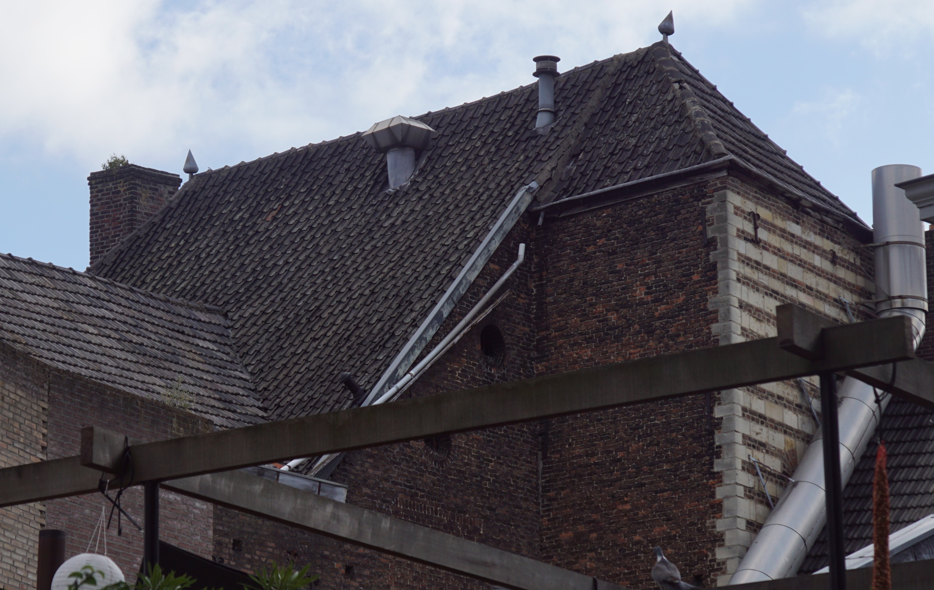 Vrijthof 36, Maastricht, The Netherlands. South facade seen from inner square of Keizer Karelplein.